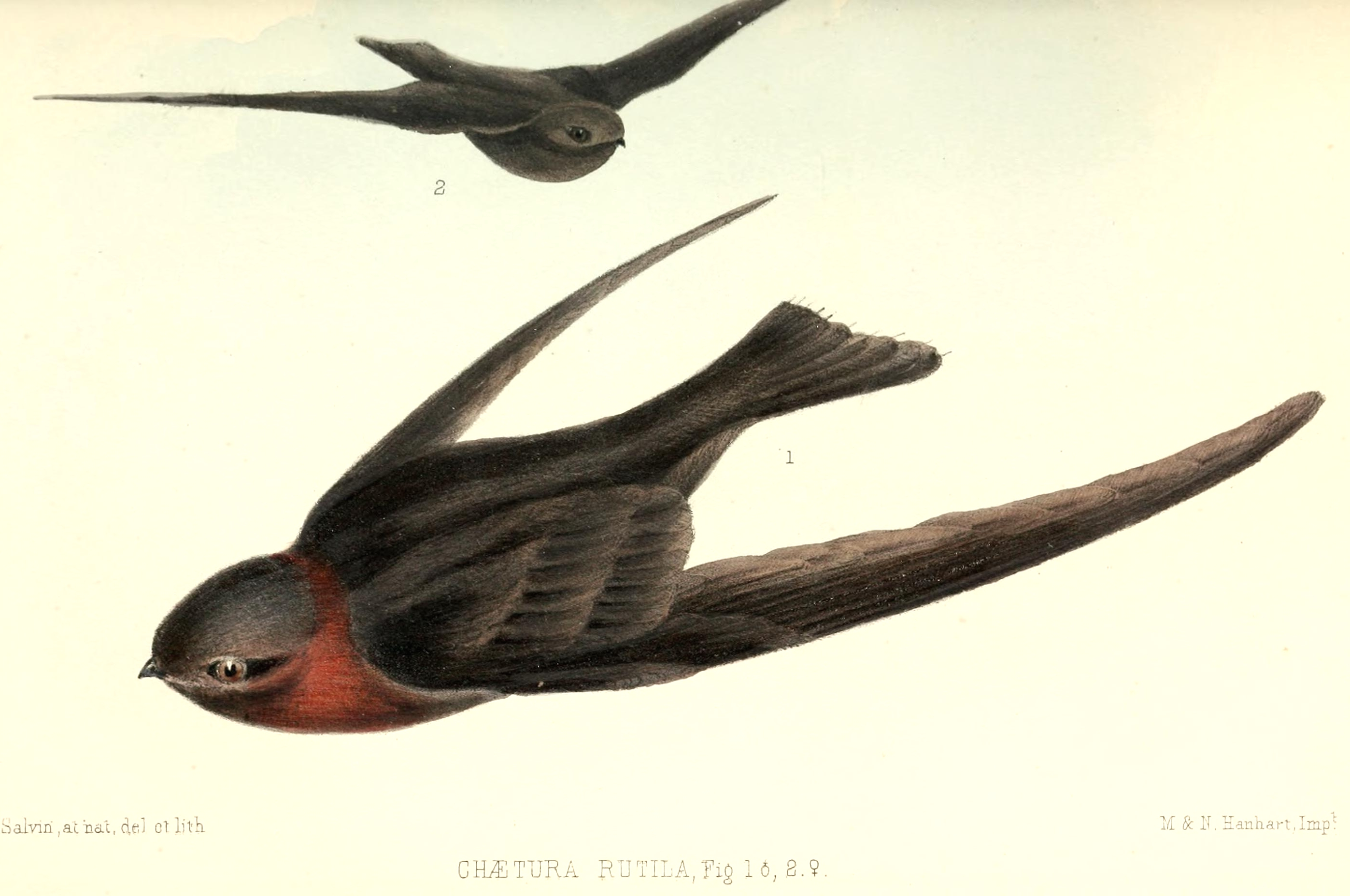 « Chaetura rutila » = Streptoprocne rutila (Chestnut-collared Swift) - male and female